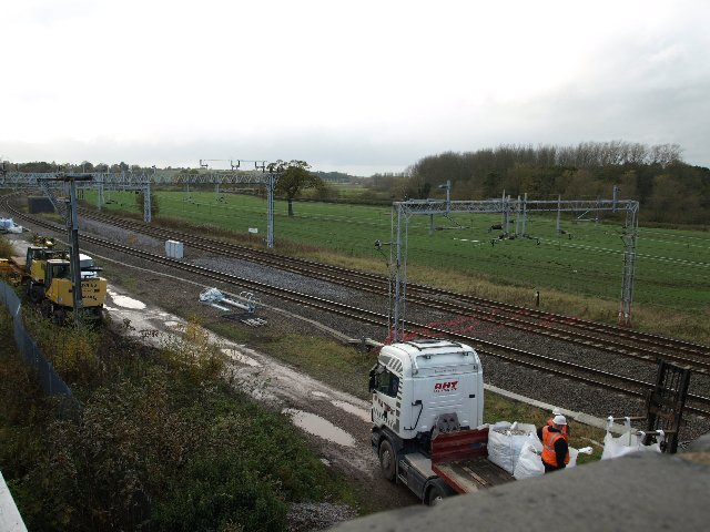 Site of Milford & Brocton Railway Station Used by visitors to Cannock Chase for decades but closed to passengers in the 1950's and demolished many years ago there is a modern sign next to the line which reads Milford & Brocton, otherwise it is hard to imagine that any station ever existed at this point.